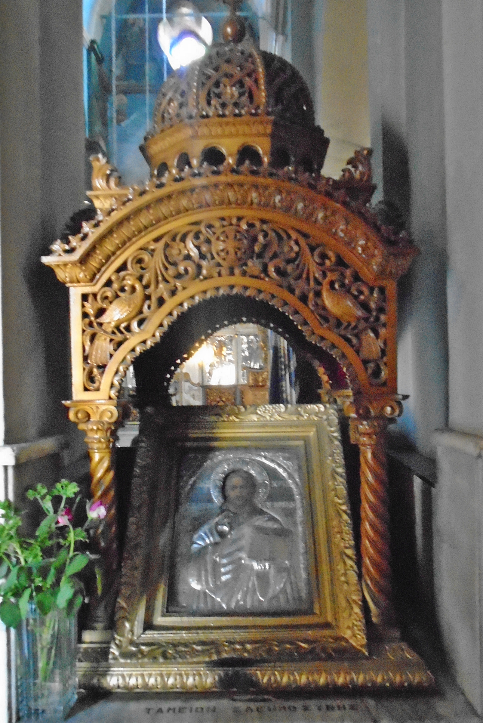 Icon in Chania Orthodox Cathedral